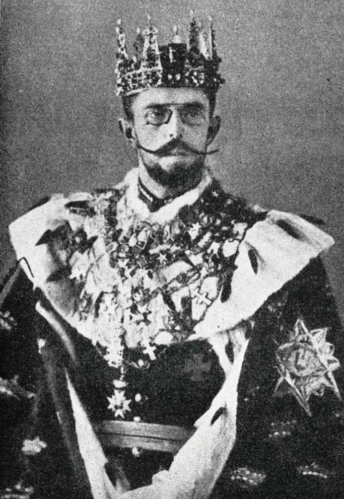 Gustav (V) of Sweden wearing the Coronet of the Crown PrincePlace: Stockholm, Sweden